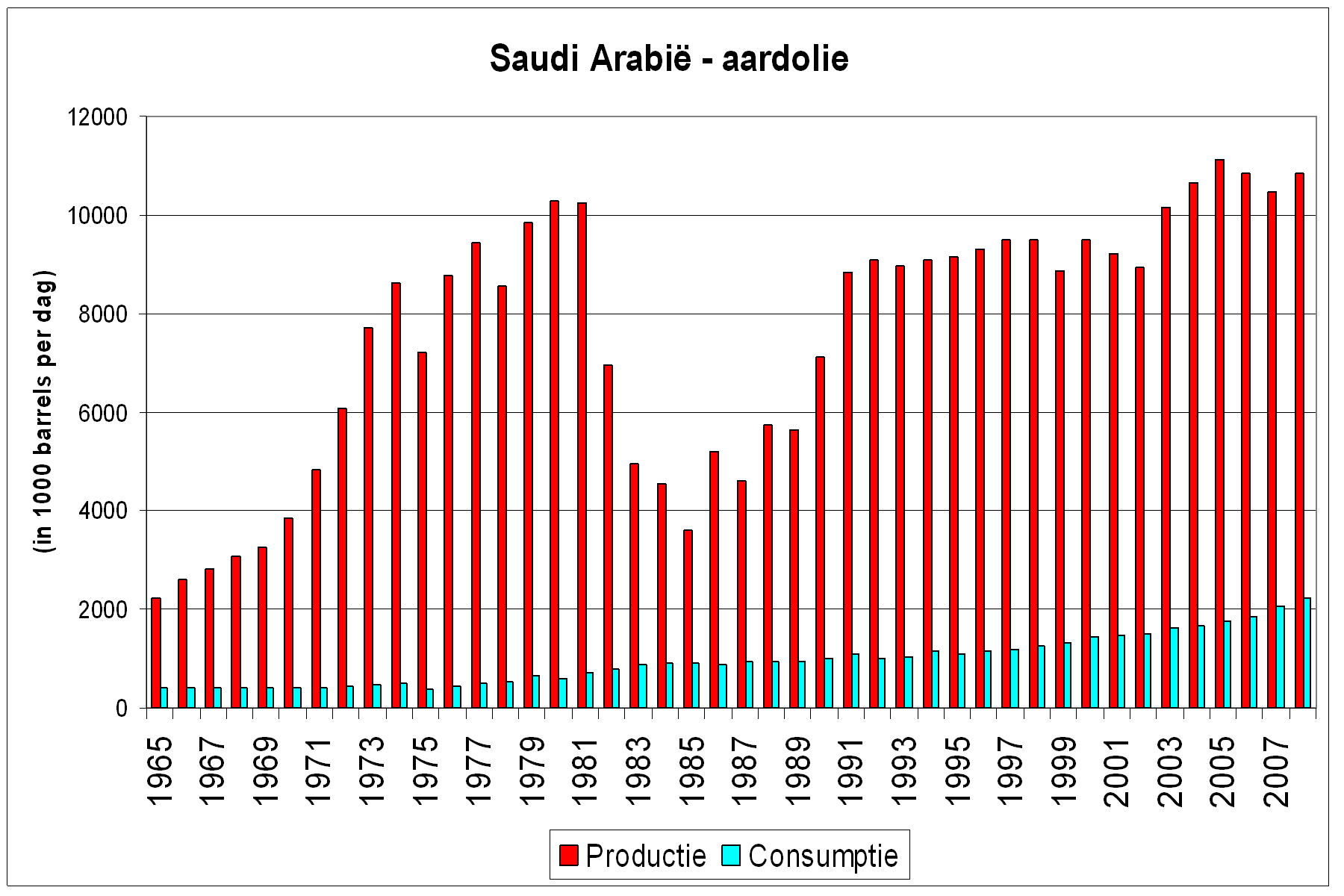 Oil production and consumtpion Saudi Arabia. Source: BP statistical review of world energy